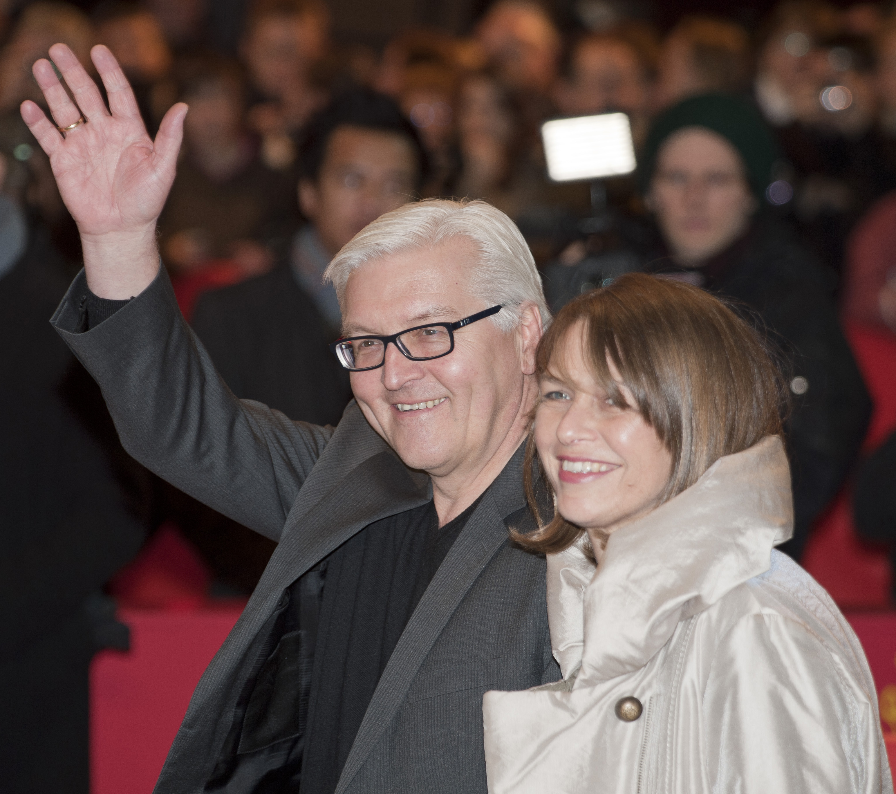 Frank-Walter Steinmeier, German politician, with his wife Elke Büdenbender, at the premiere of True Grit at the Berlinale 2011